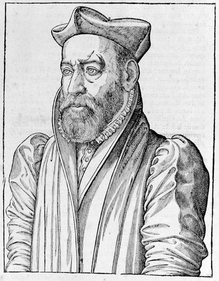 Engraving with portrait of Philibert de L'Orme